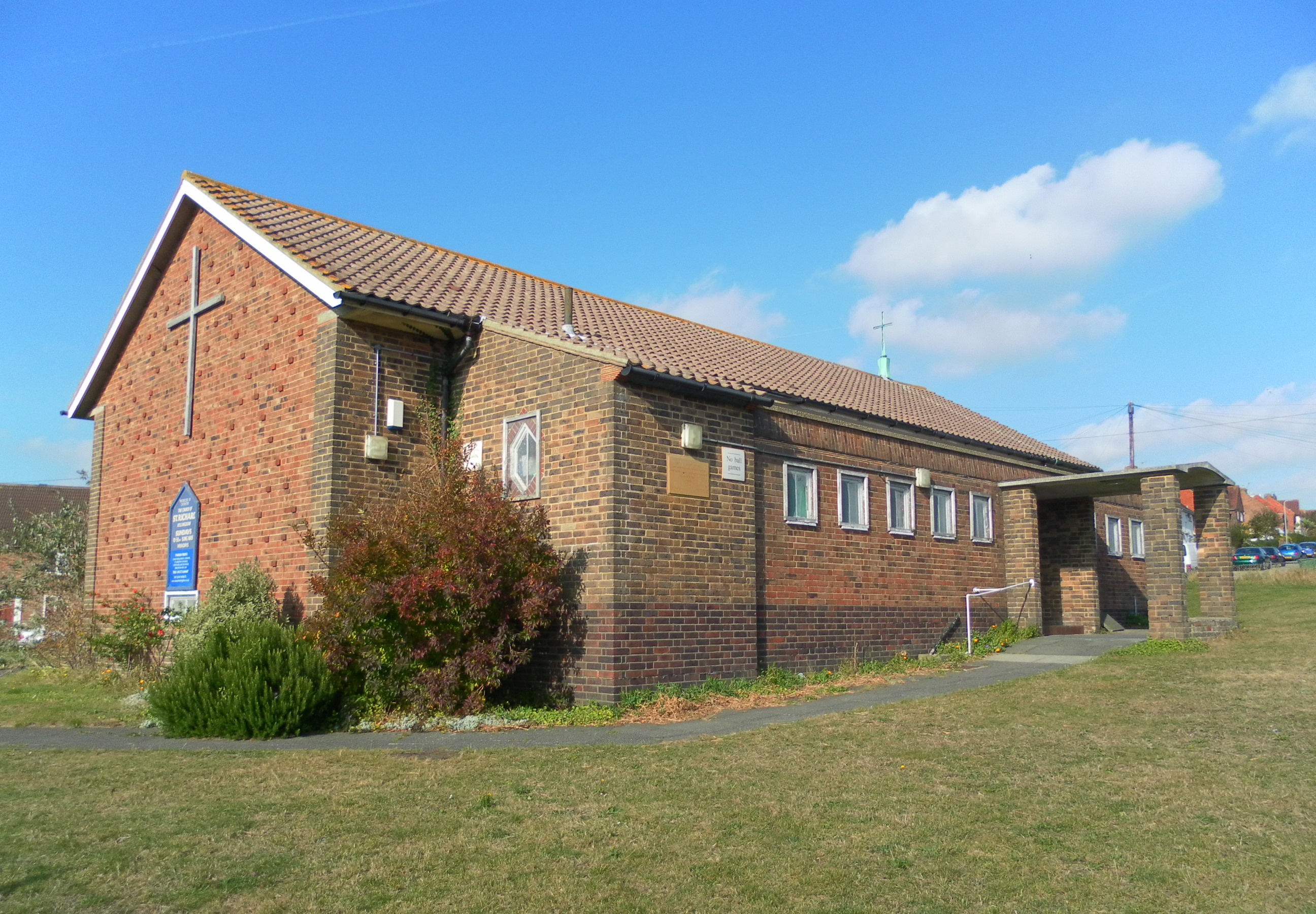 St Richard's Church, The Crossway, Hollingdean, City of Brighton and Hove, England. Built in 1954 by Clayton, Black & Daviel as a chapel of ease to St Matthias Church.